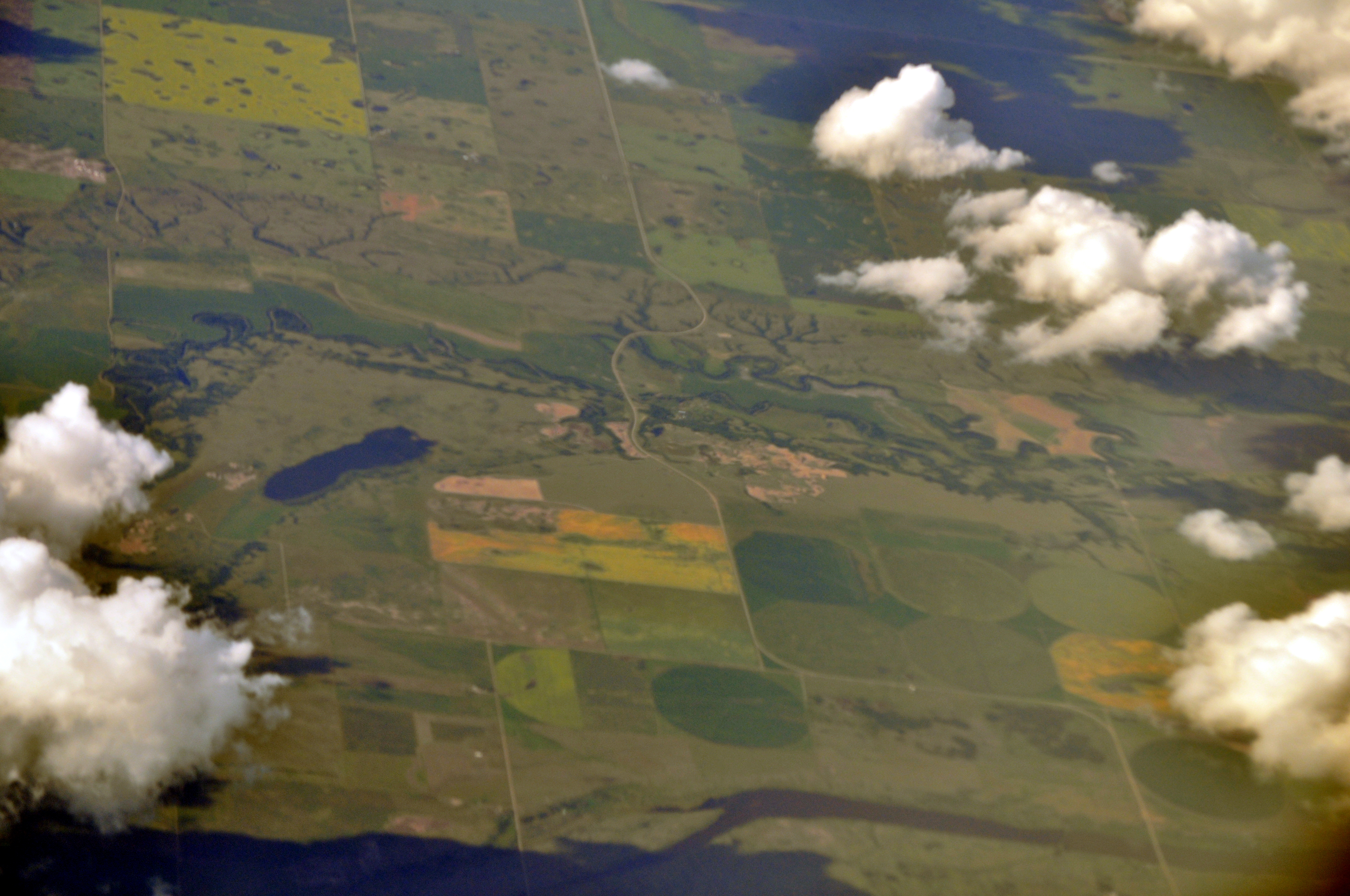 Aerial view from roughly south by southwest of Saskatchewan between Moose Jaw and Lumsden, centered roughly at: Object location50° 35′ 27.6″ N, 105° 13′ 04.8″ W